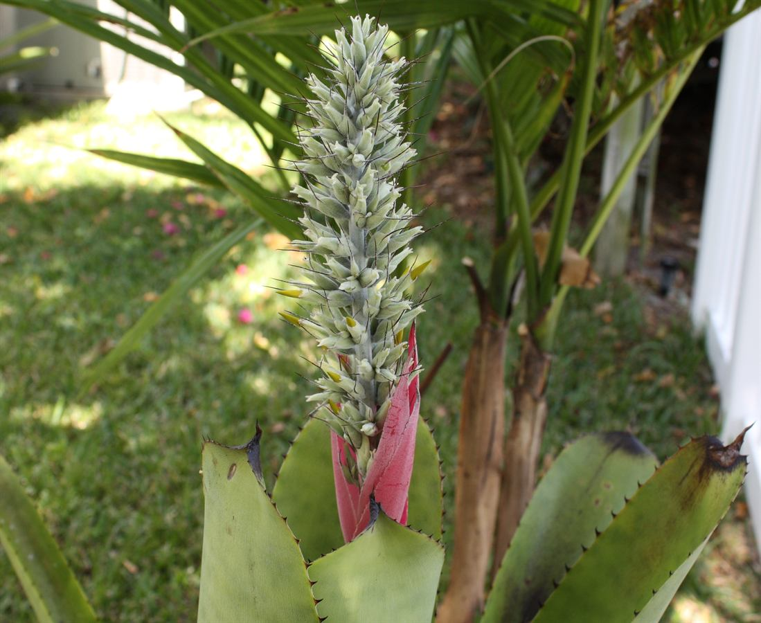 Aechmea kuntzeana inflorescence